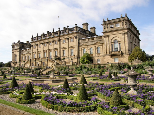 Neoclassical facade of Harewood House seen from the Terrace Garden with parterres. Located in Harewood, West Yorkshire, England.